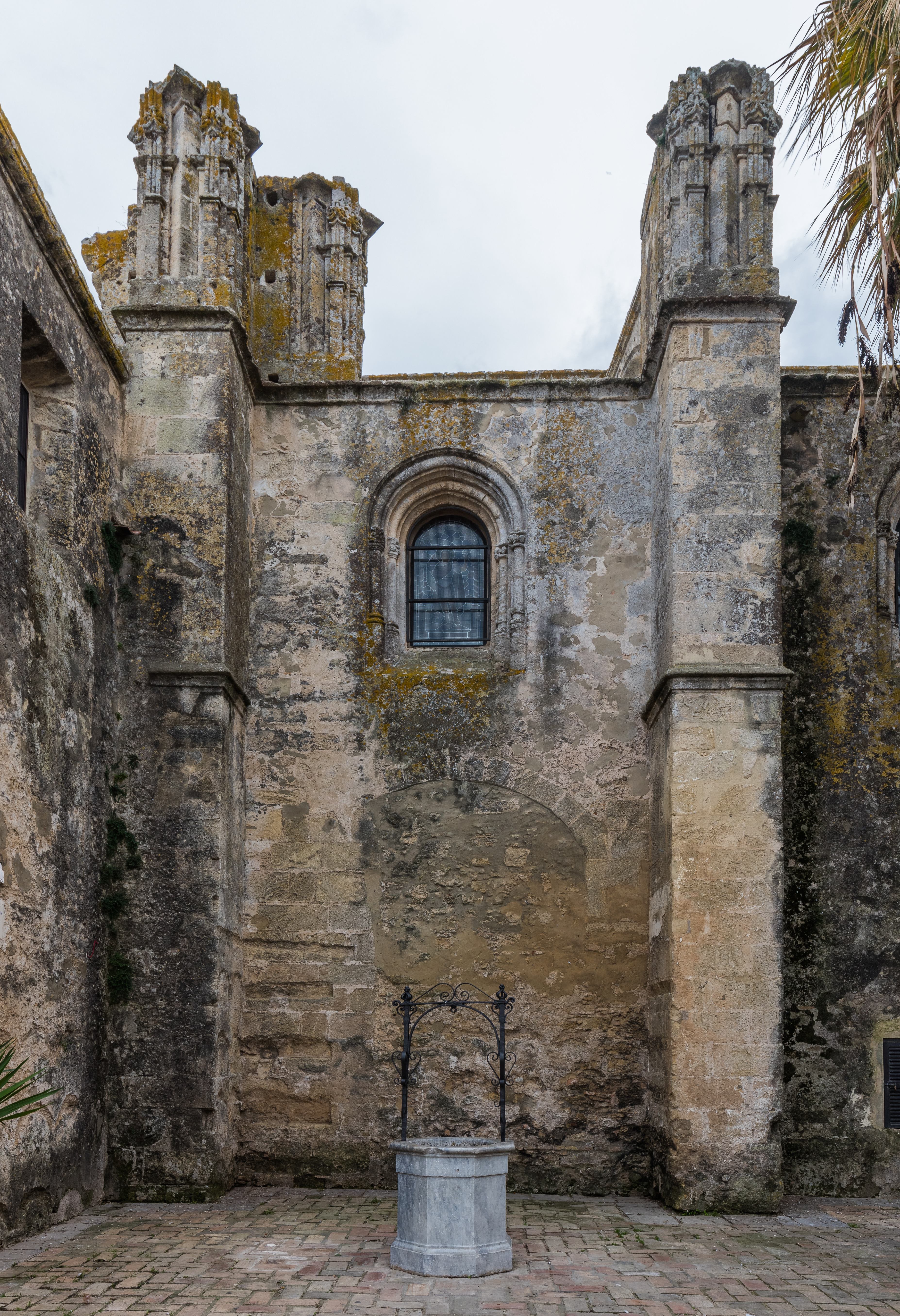 Divino Salvador Church, Vejer de la Frontera, Cádiz, Spain